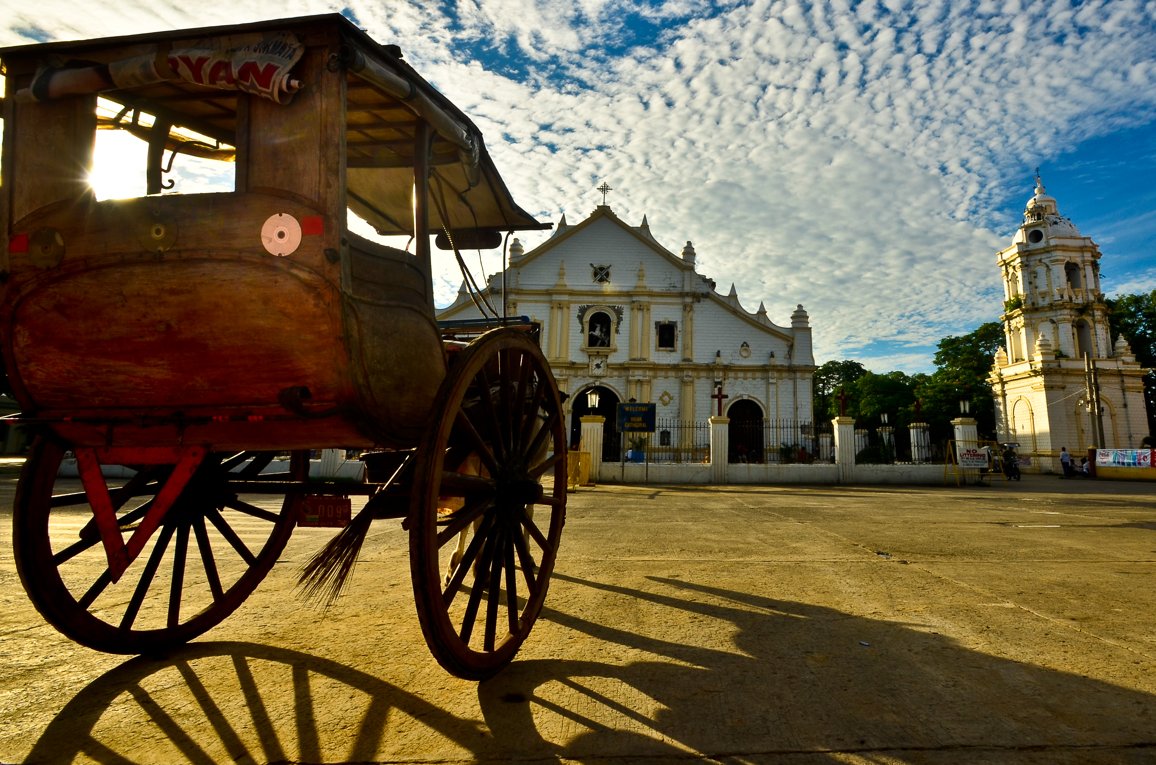 St. Paul's Cathedral in Vigan, Ilocos Sur, Philippines. Filipino: Katedral ni San Pablo sa Vigan, Ilocos Sur, Pilipinas.